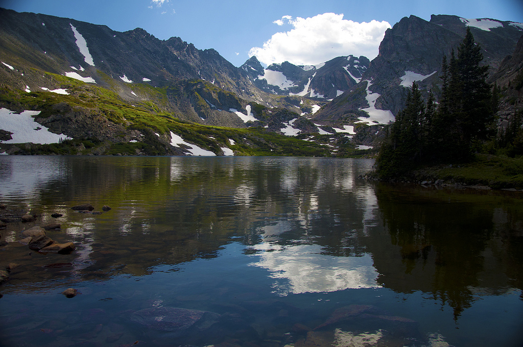 Lake Isabelle, CO, Roosevelt National Forest Photo: Don Becker